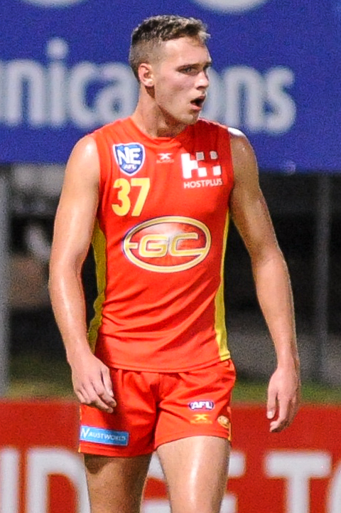 Jack Scrimshaw playing for the Gold Coast Suns' reserves in May 2017.